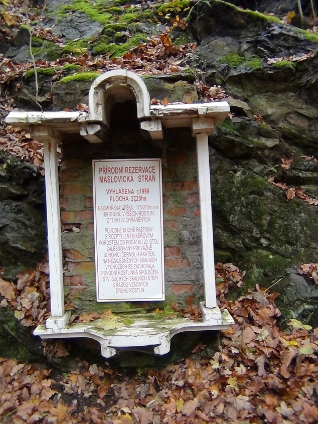 Nature reserve Máslovická stráň in Prague-East District, Czech Republic